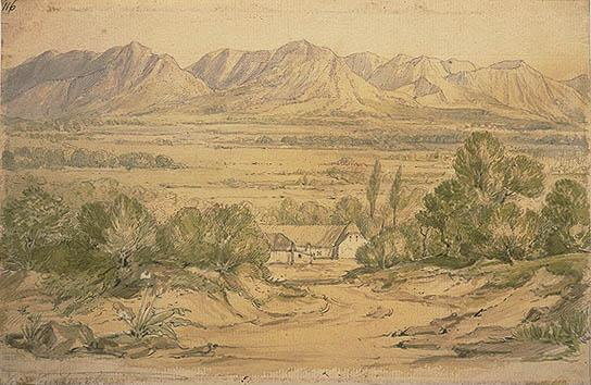 Cape of Good Hope, view south-east from above Wynberg, a field drawing in pencil and wash, executed by William Westall during the visit of HMS Investigator to Cape Colony in October–November 1801.